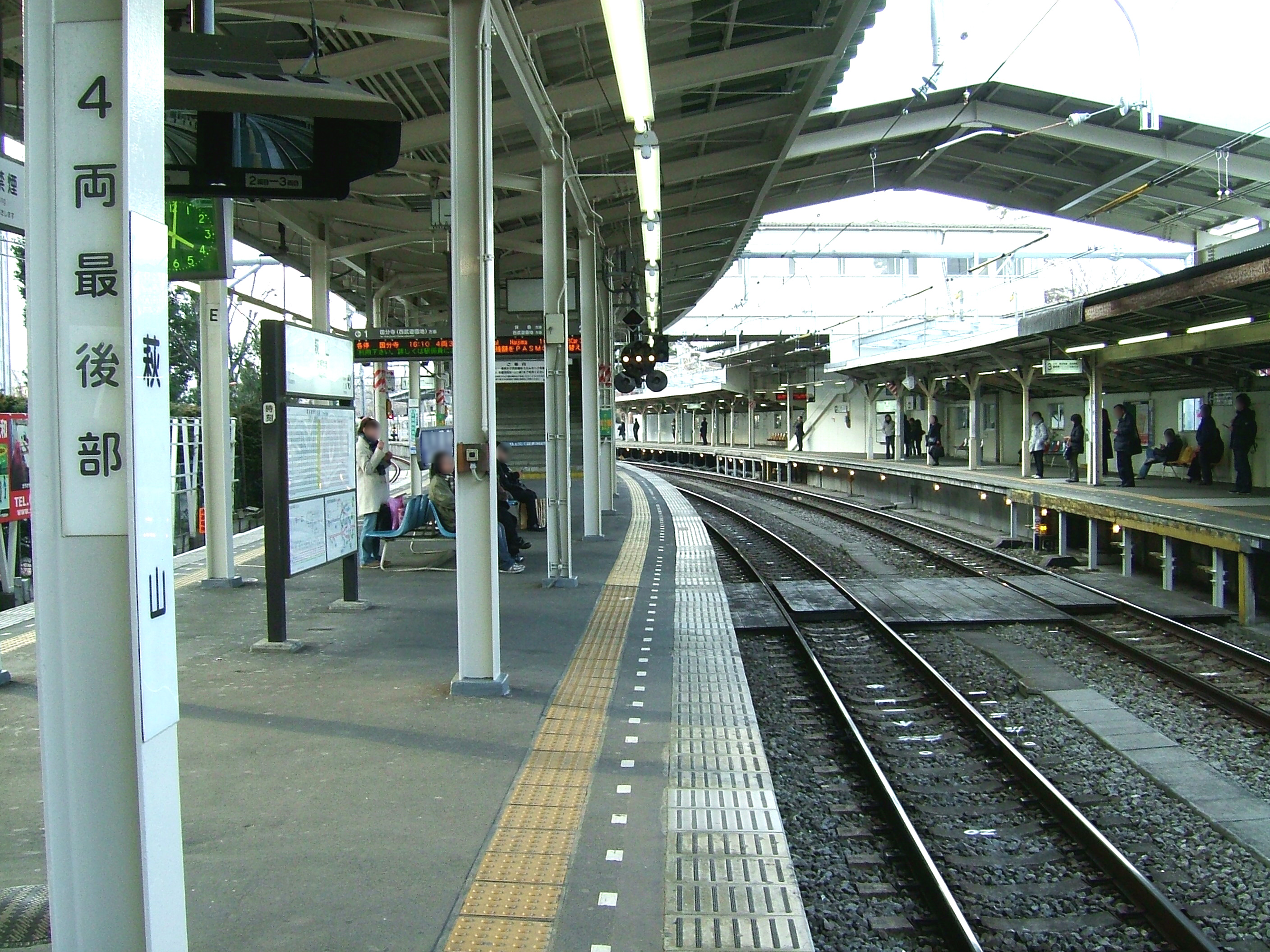 Hagiyama Station platform (Seibu Haijima Line, Seibu Tamako Line)